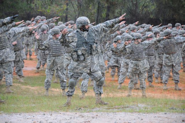 Photo of Army Spc. (Specialist) Simranpreet Lamba, training at Ft. Jackson, SC. Lamba is the first Sikh to graduate Army training as an enlisted man in 25 years, with special permission to keep his beard and wear his turban as the "articles of faith" that are part of his religious beliefs and requirements.